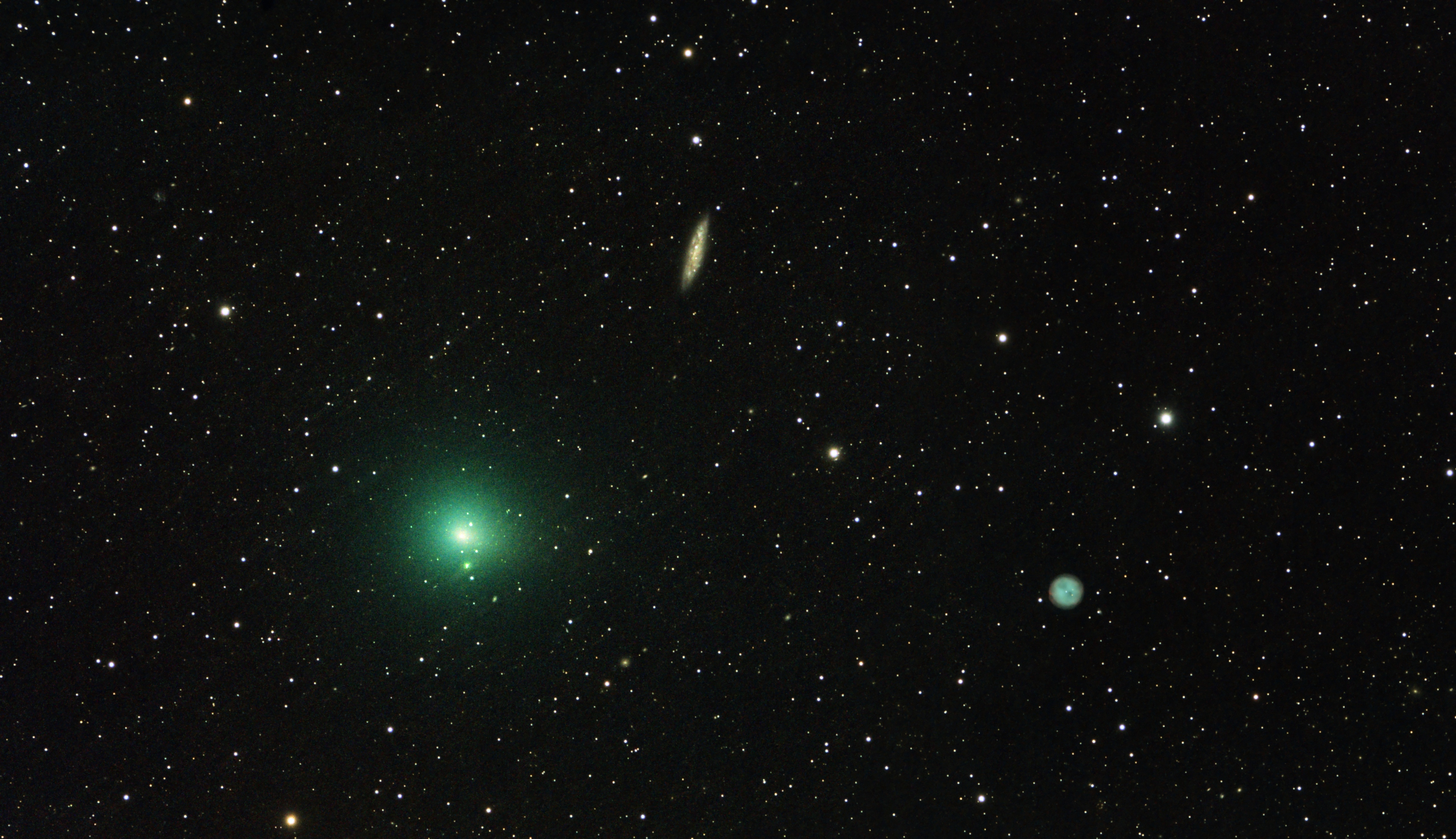 Comet 41P/Tuttle-Giacobini-Kresak march 22, 2017 20:00-20:45 UTC near Messier 108 and Messier 97 (Owl Nebula).Esprit 100 triplet APO/ Canon6Da. 17x120 seconds for the comet (Stacked in DeepSkyStacker Cometmode) and 40x240 sec iso1600 (17+18 march 2017). Both stacks combined with pixelmath in Pixinsight. Images for both stacks have the exact same center and orientation. Knight Observatory, Tomar